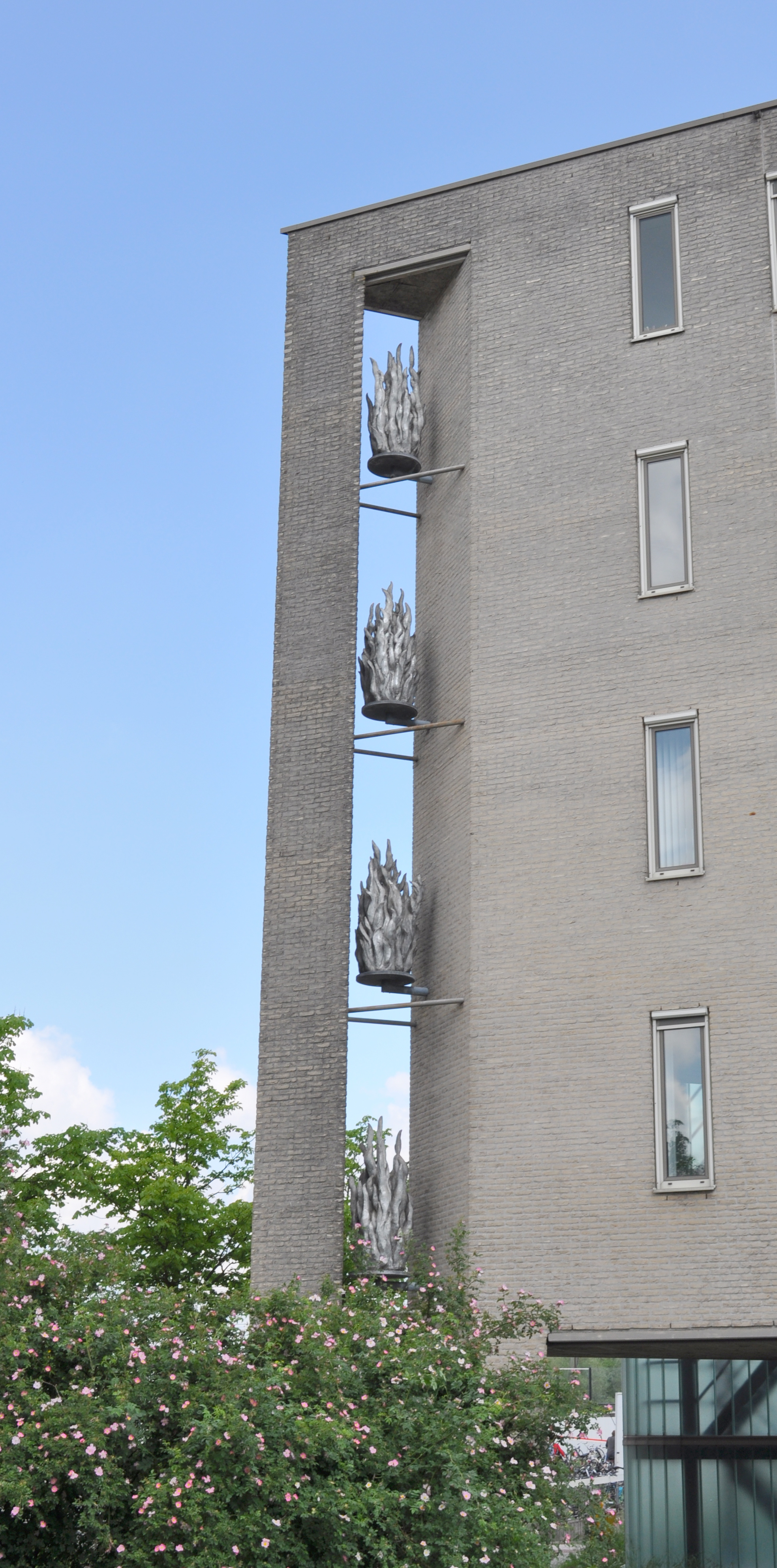 Sculptures "Psycho" as part of the building Altrecht at the Nieuwe Houtenseweg in Utrecht Lunetten. Made by Hans van Houwelingen in 1995.